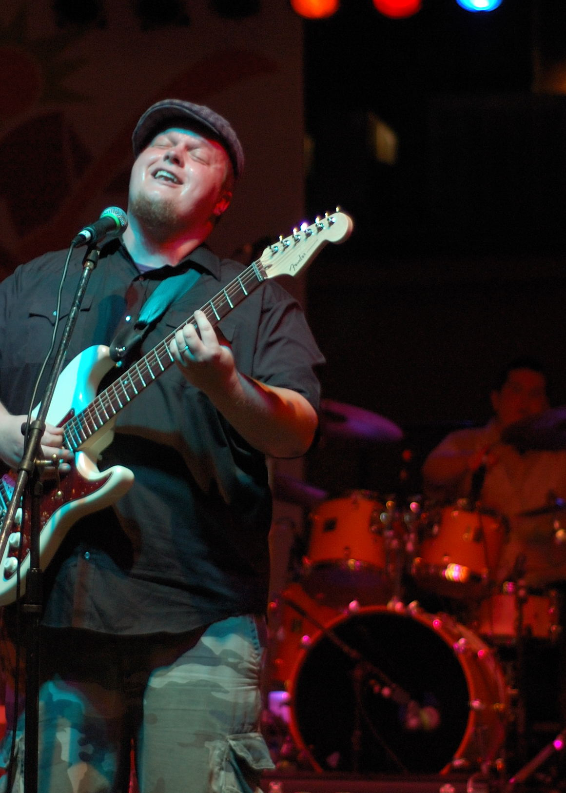 woodbelly performing at taste of dallas 2007